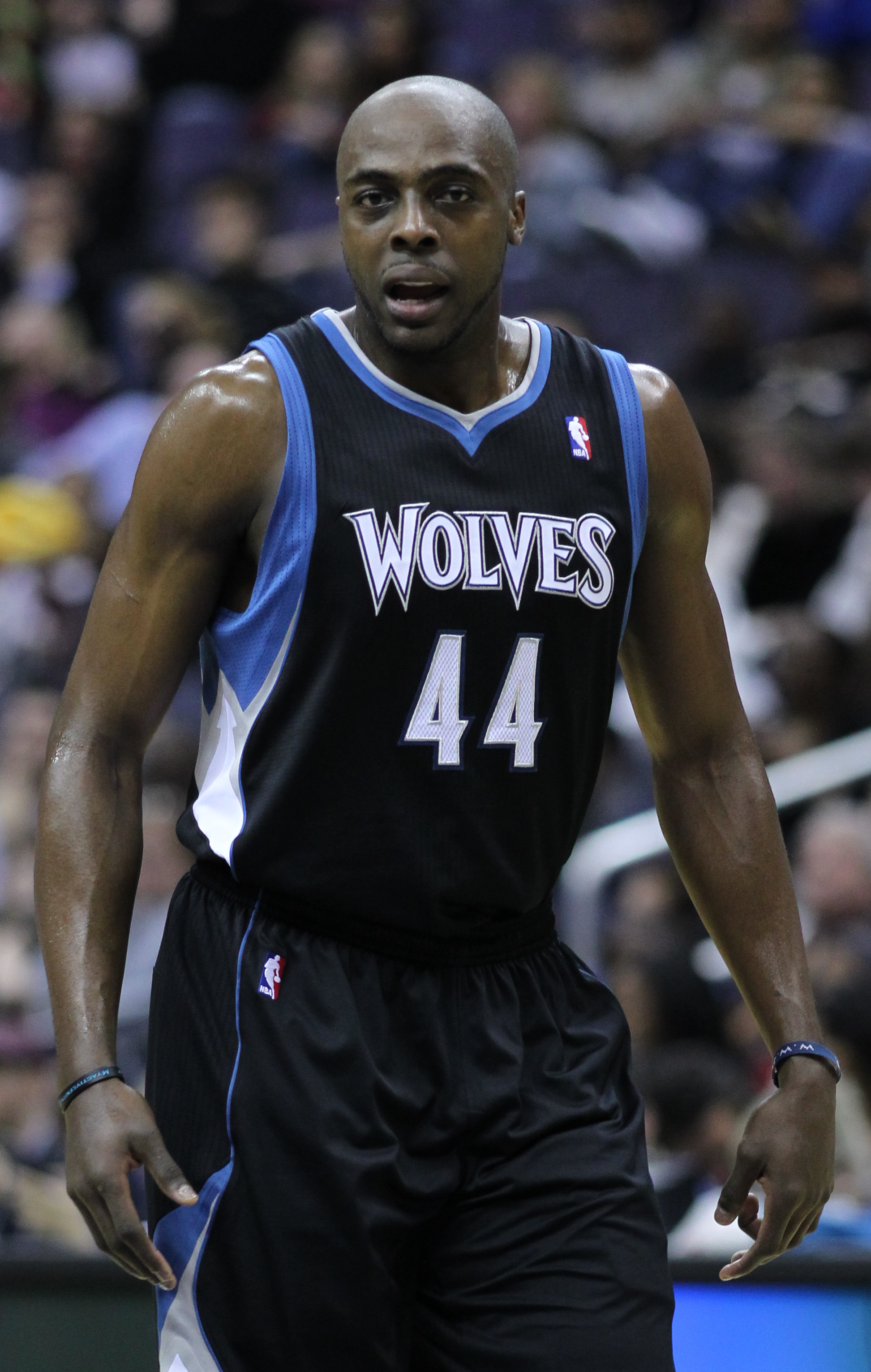 Wizards v/s Timberwolves 03/05/11